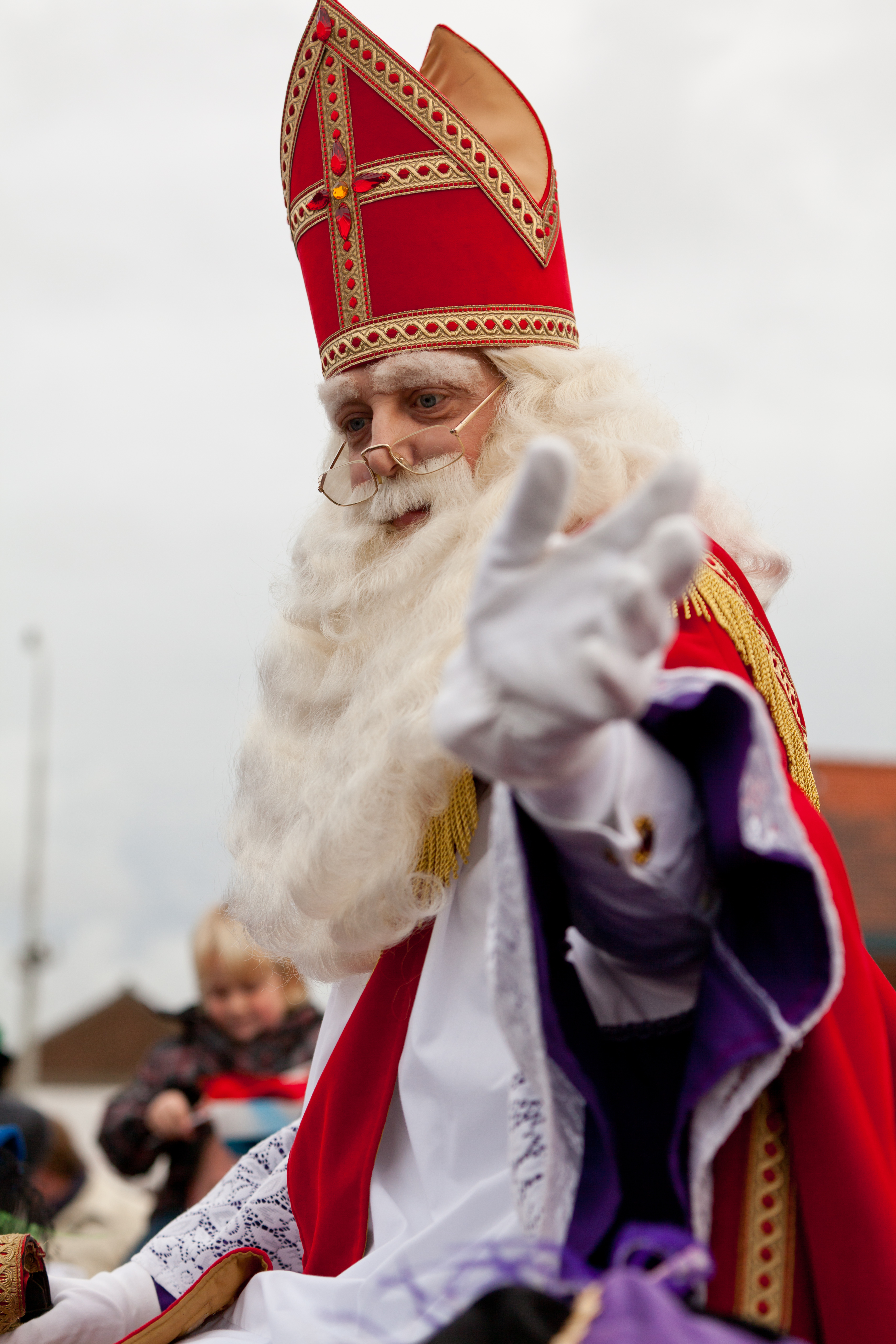 Every year at december 5th, Sinterklaas is celebrated in the Netherlands. The story is that he celebrates his birthday then. All the children get presents which are delivered through the chimney by the "zwarte pieten".